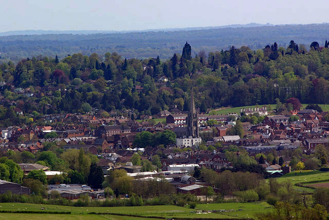 Dorking Viewed from Denbies Hillside. Prominent is the spire of St Martin's Church.